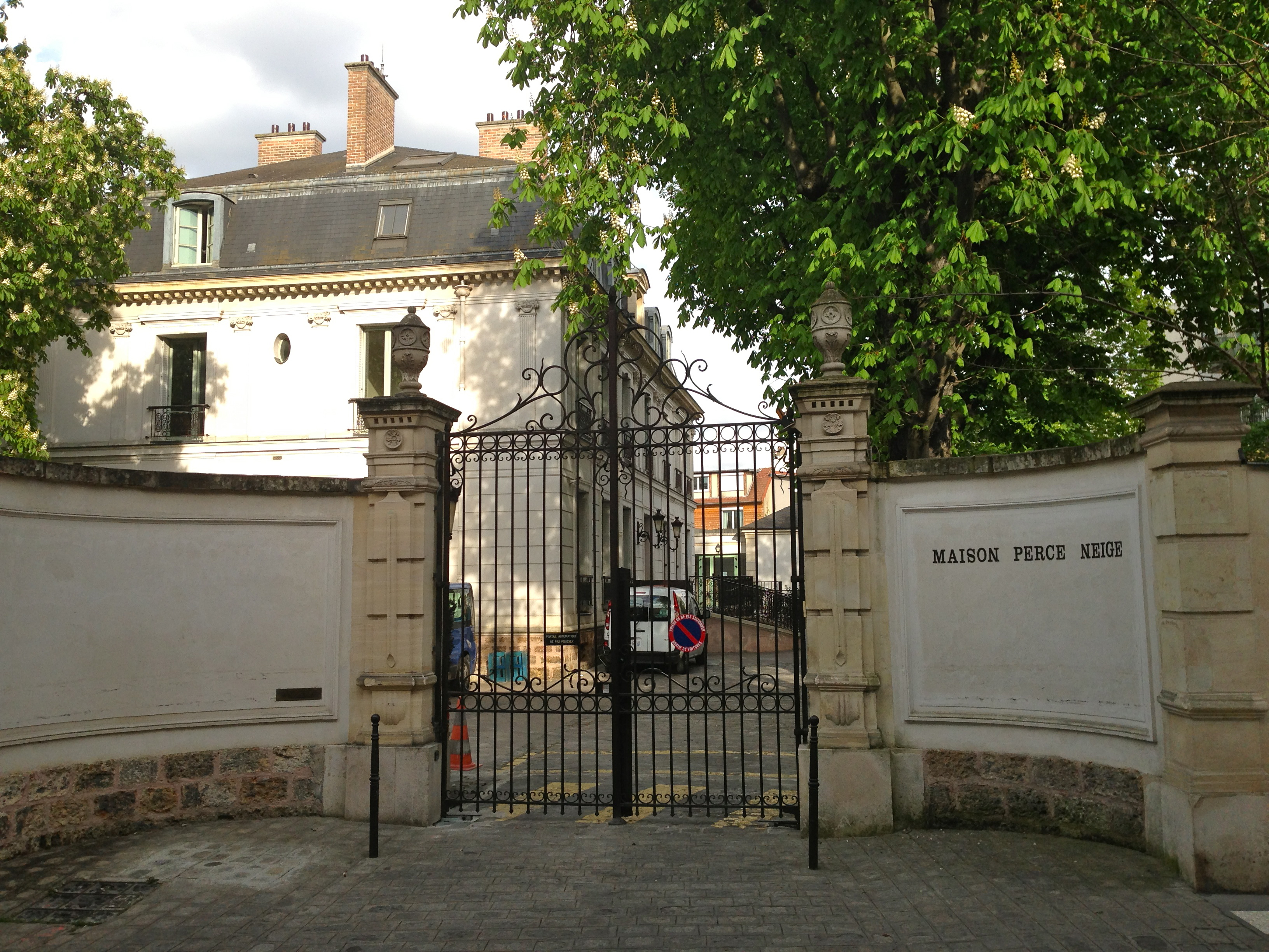 18 Avenue Ménelotte, Colombes Bought by Pierre-François Pascal Guerlain Birthplace of Jacques Guerlain Sold by Aimé Guerlain